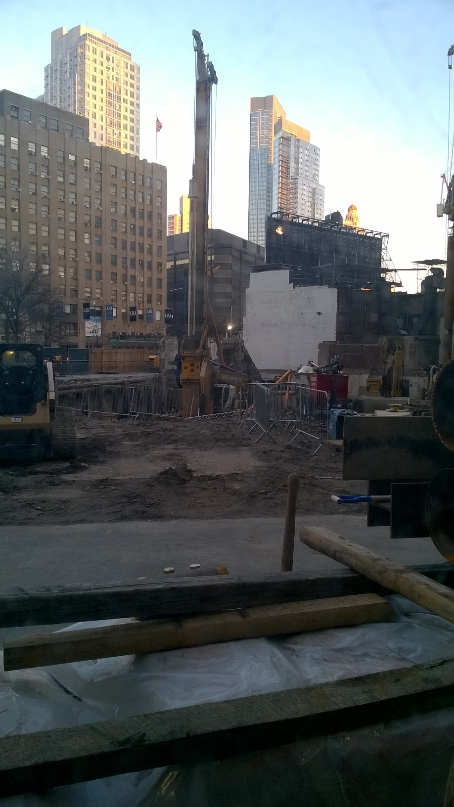 Piles being driven into the ground, in the 9 Dekalb Avenue construction site on April 6, 2019.